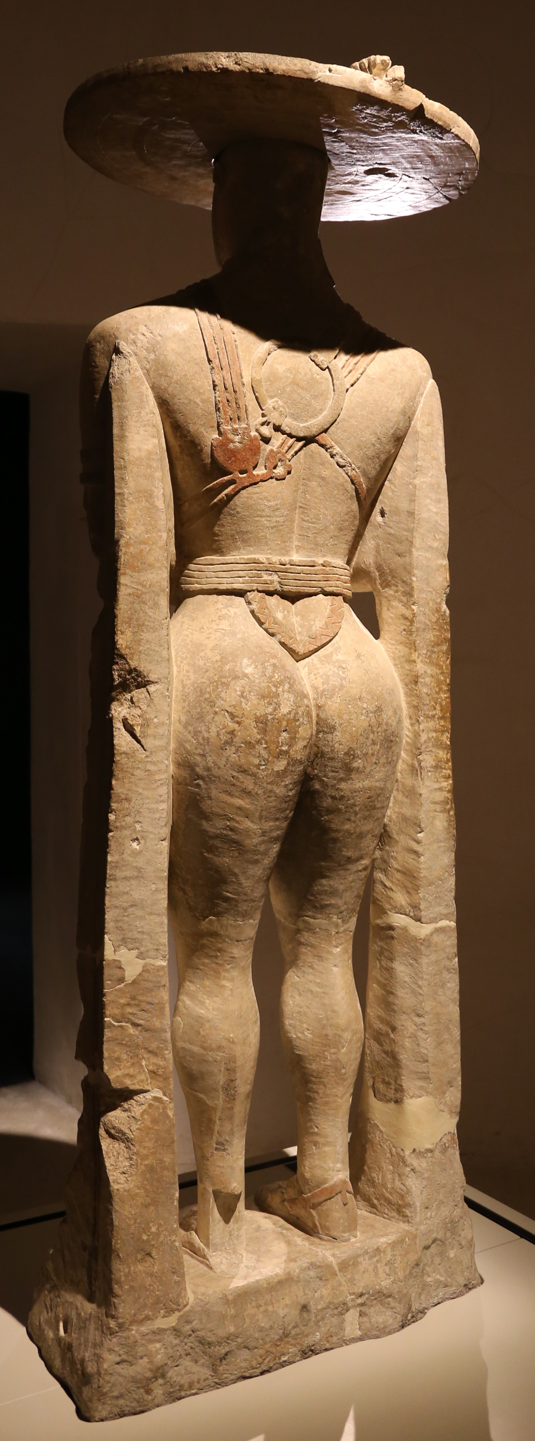 Guerriero di Capestrano